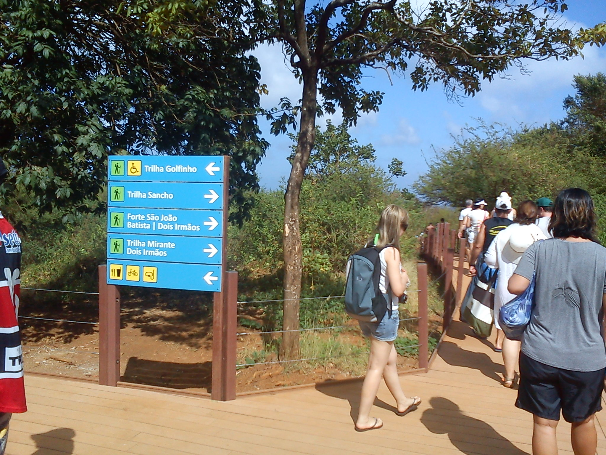 Sign indicating nature trails - Fernando de Noronha - Pernambuco - Brazil